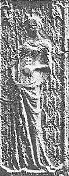 Eleanor of Sicily